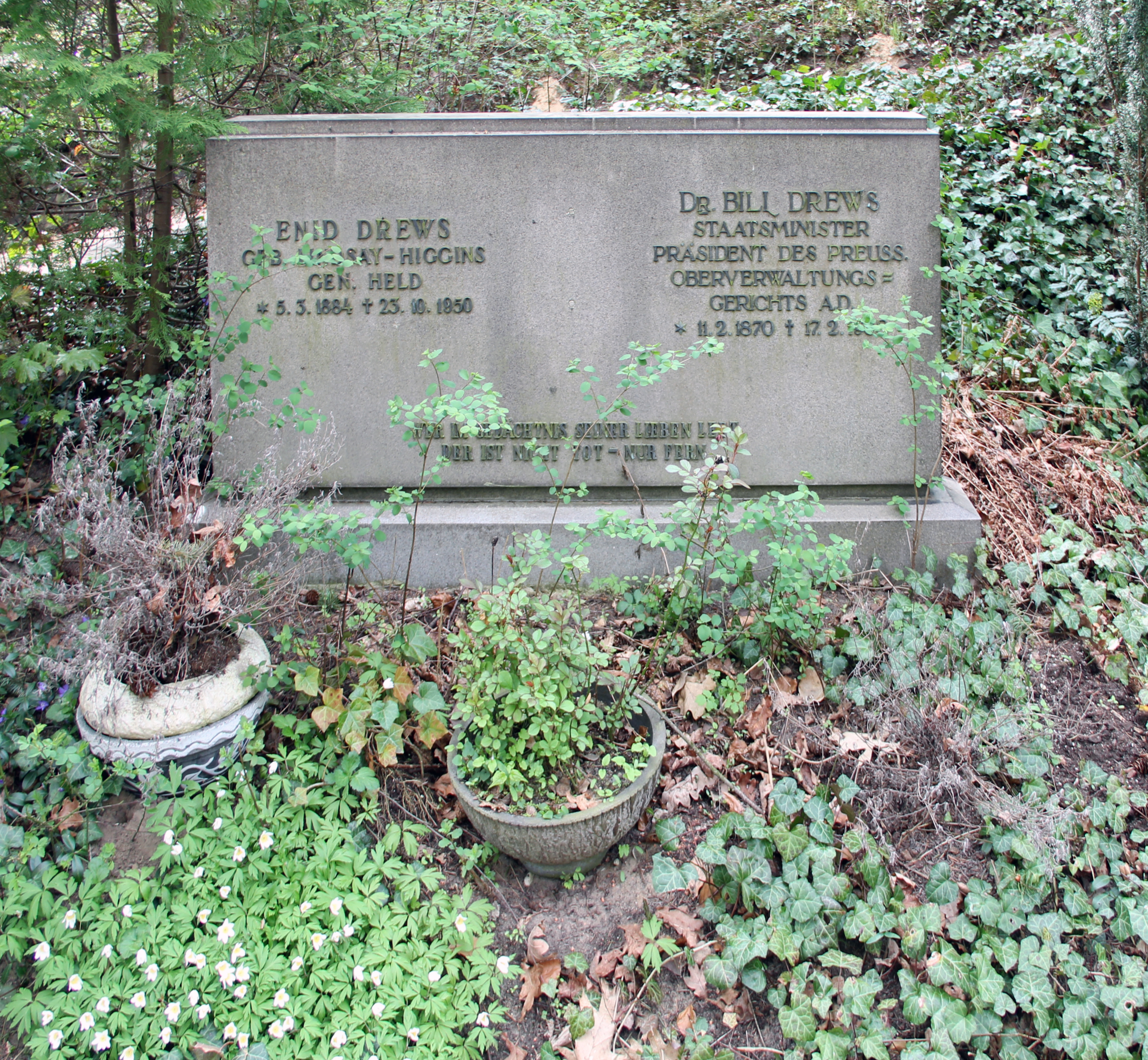 Grave, Bill Drews, Trakehner Allee 1, Berlin-Westend, Germany